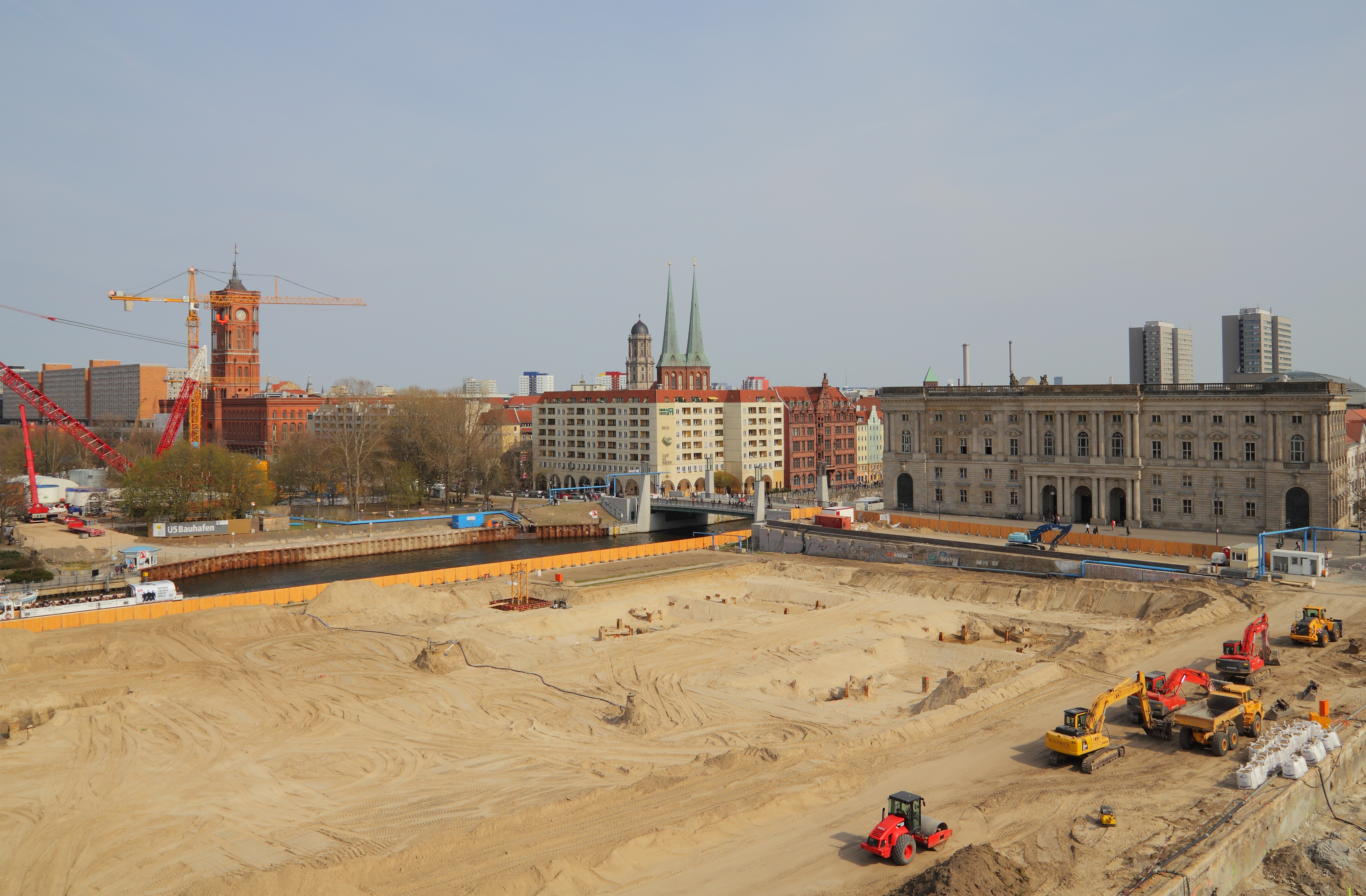 View of Berlin from Humboldt-Box (Schlossplatz). Construction site of the Berlin City Palace.